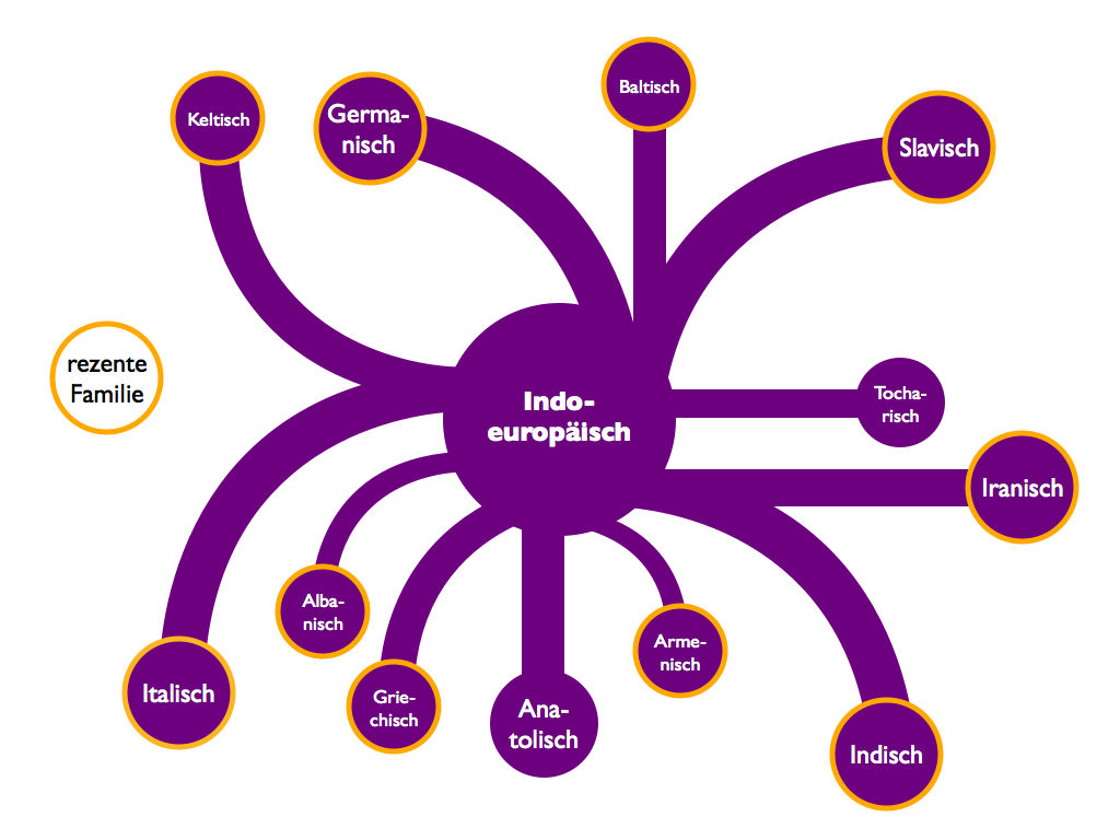 Simplified schema of the best-known branches of the Indo-European language family.